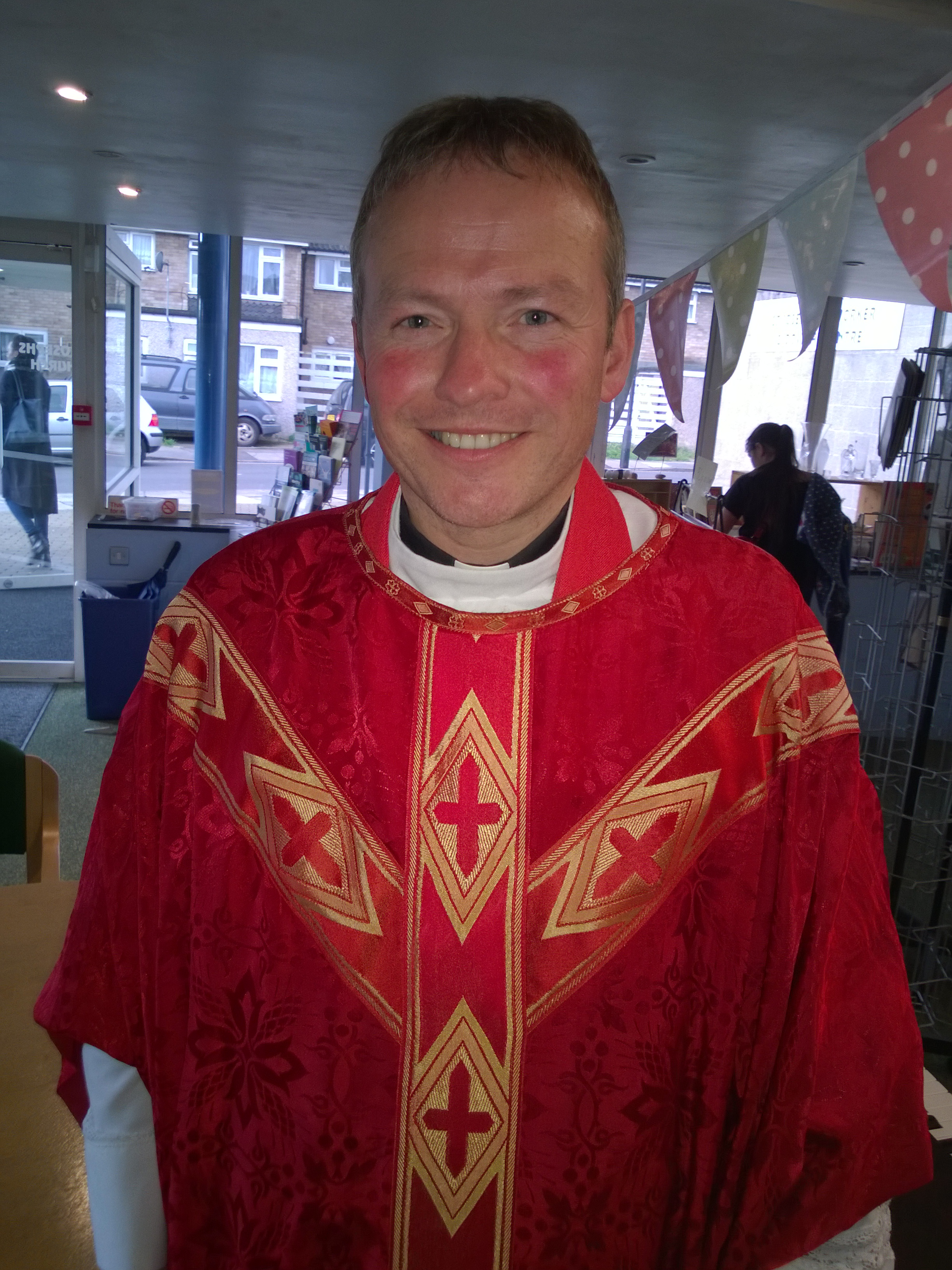 Steve Benford at a Sunday service in October 2015 at the Church of St. Joseph the Worker, Northolt